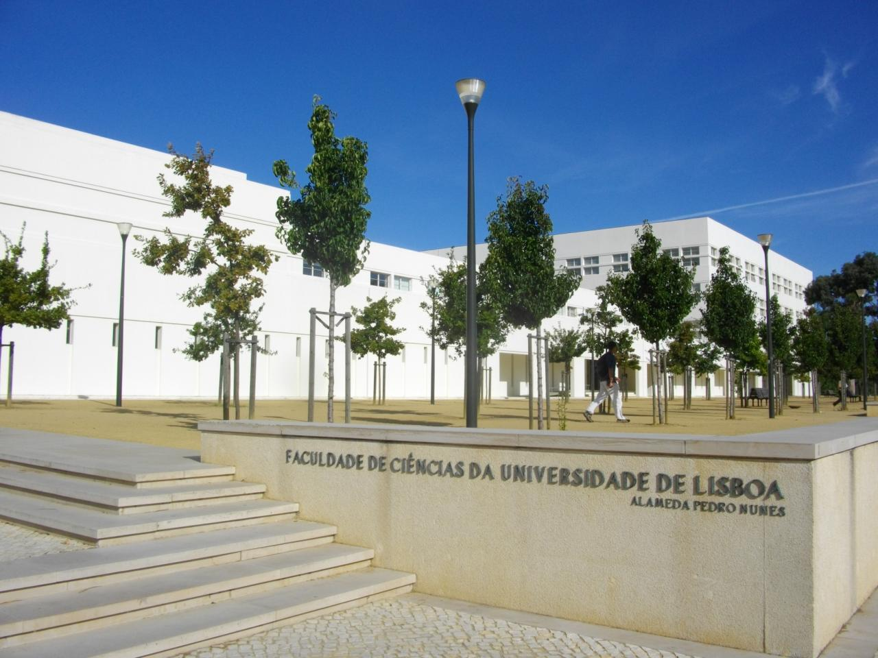 Faculty of Sciences, University of Lisbon